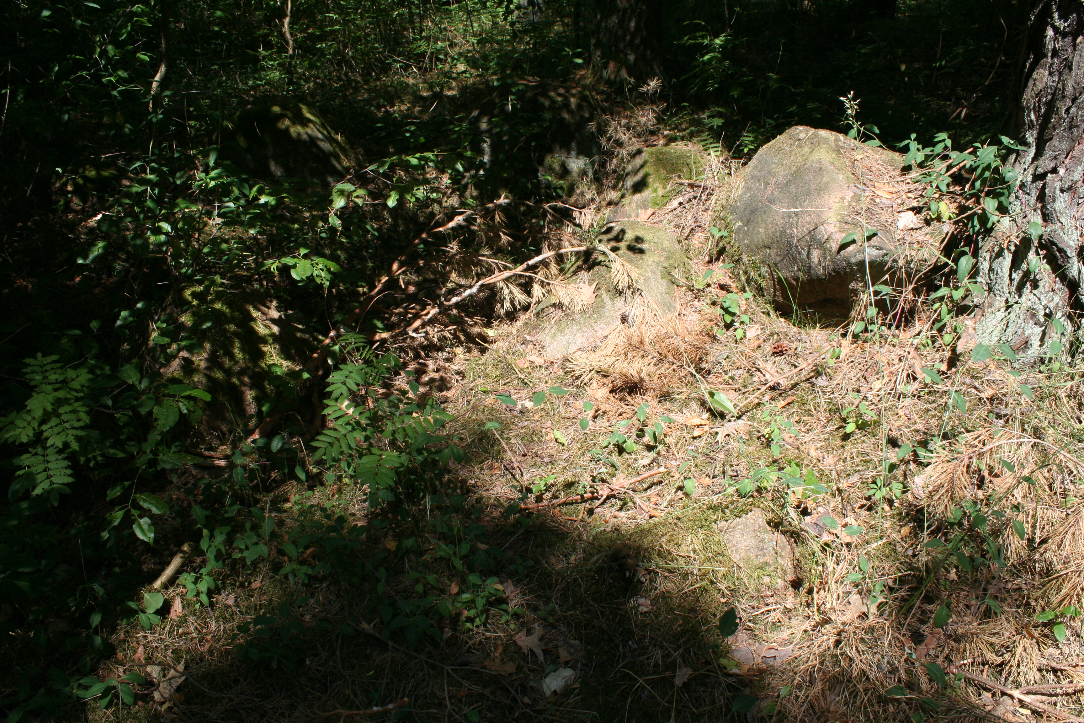 Megalithic tomb Haldensleben II 16